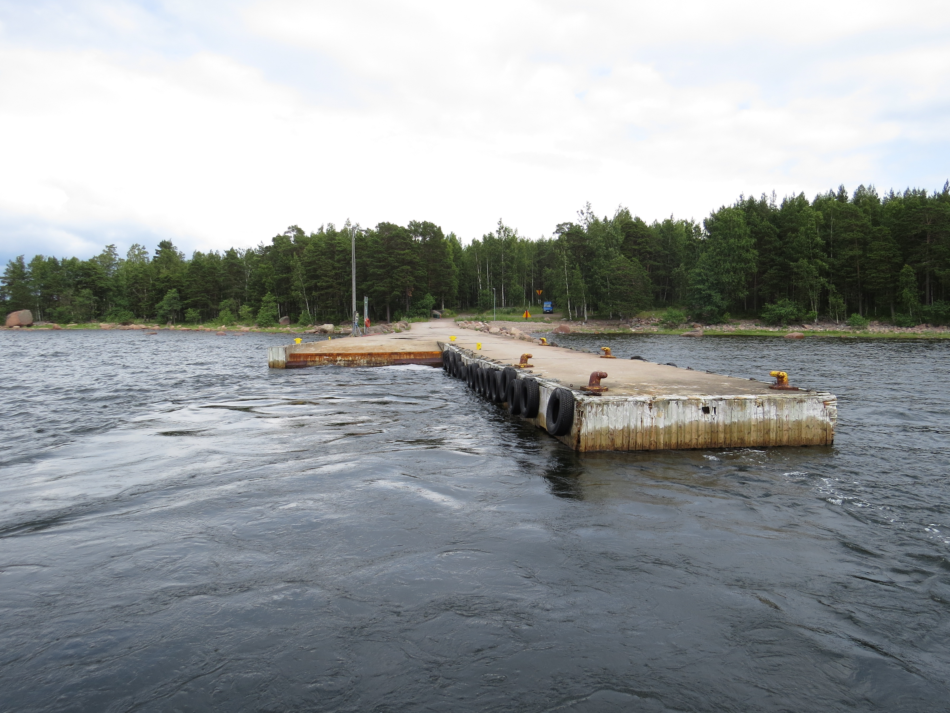 Pier on Kirkonmaa island